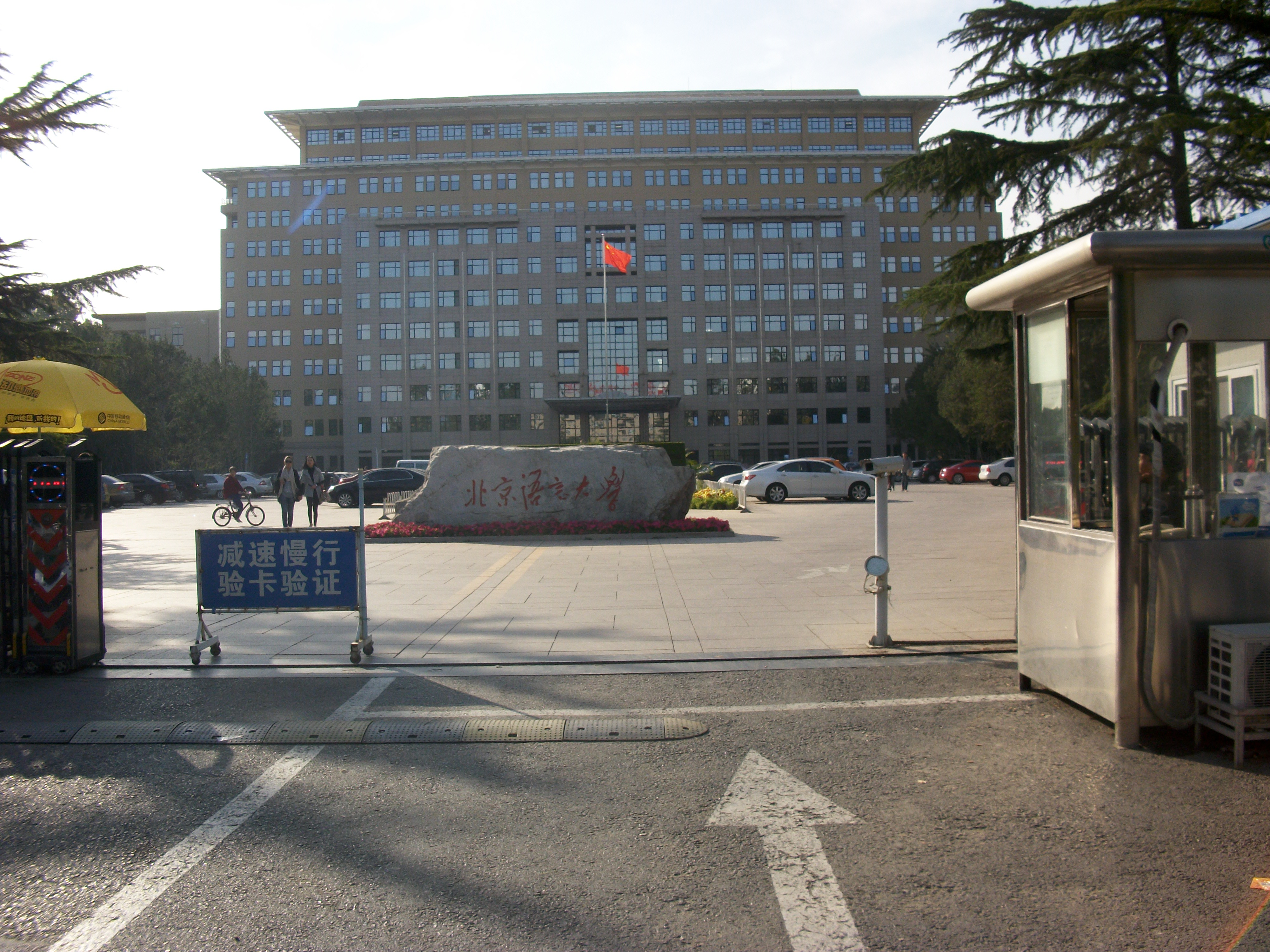 East gate of Beijing Language and Culture University.